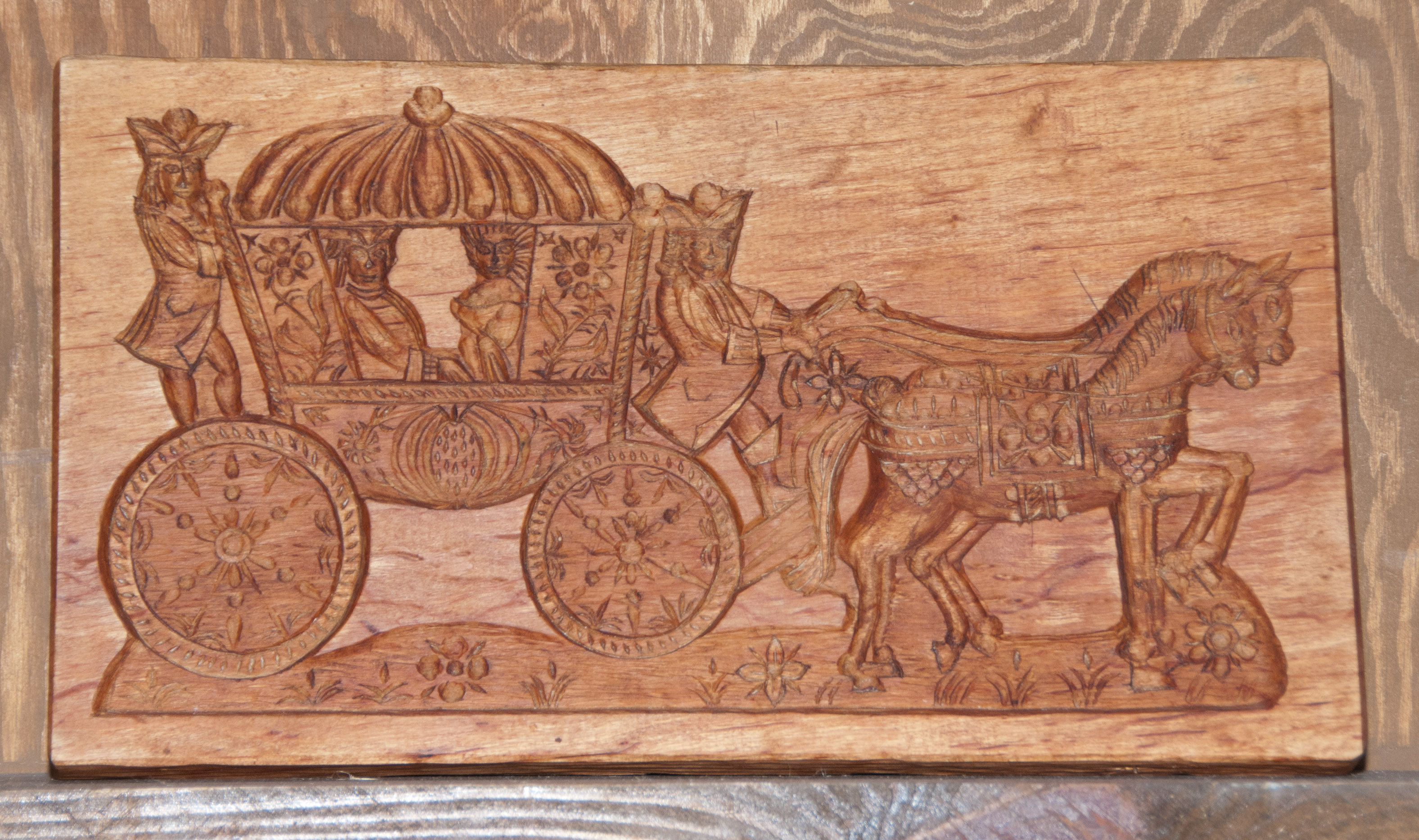 Traditional form for molding gingerbread